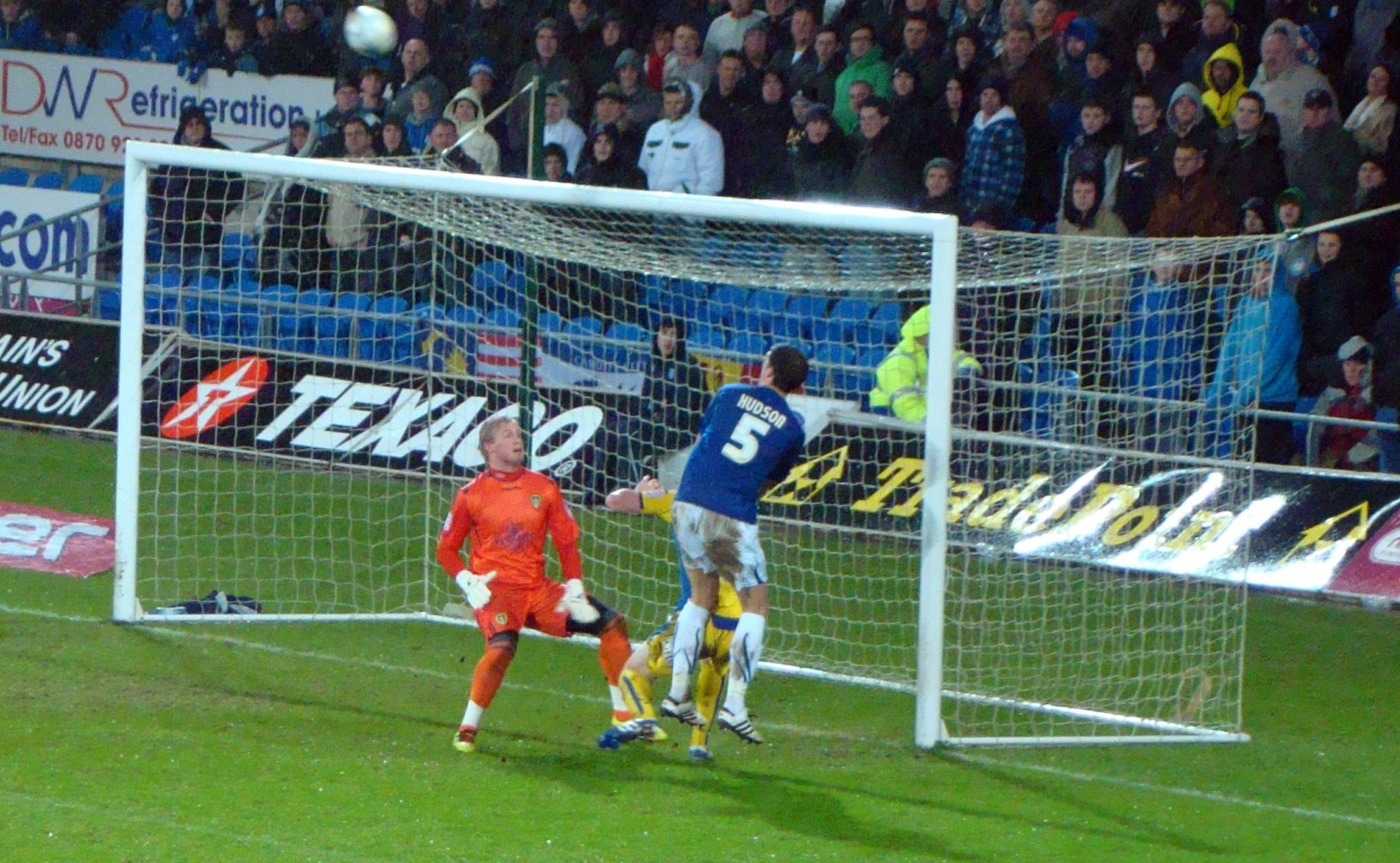 04/01/11 Cardiff V Leeds, Championship, Cardiff City Stadium, Cardiff, Wales